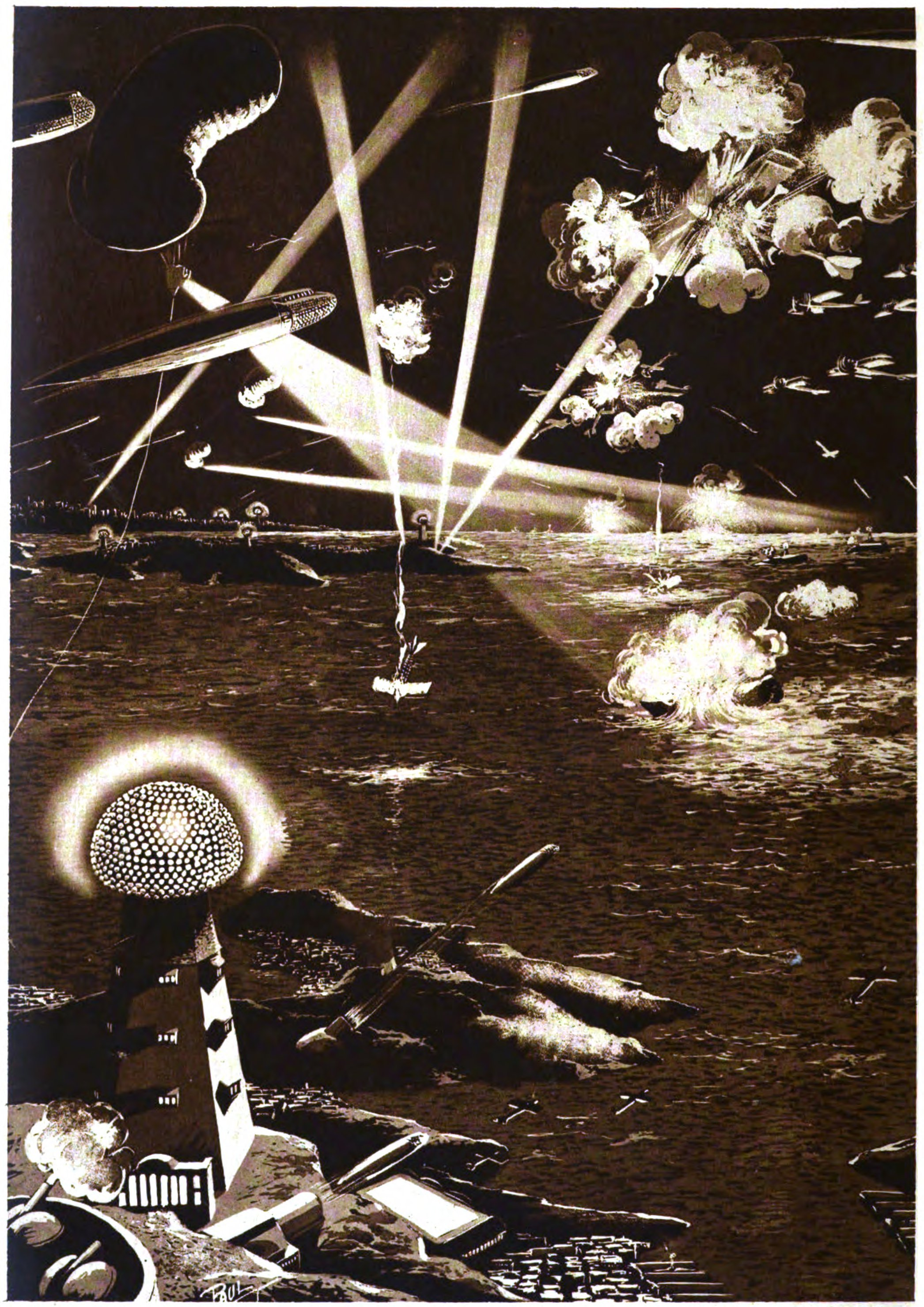 An illustration, drawn by illustrator Frank R. Paul, of inventor Nikola Tesla's speculative vision of what war will be like in the future, as described by him in an interview in the magazine. Tesla had experimented extensively with "telaumatons", wheeled carts and boats remotely controlled by radio waves, as well as with wireless power transmission. The towerlike radio power transmitter at lower left in the drawing was inspired by Tesla's Wardenclyffe Tower experimental laboratory. Caption:"War of the future as it will be conducted from the viewpoint of Dr. Tesla. Machines of destruction more terrible than anything concocted by the master minds behind the "World War" will sail under the oceans and through the skies - with not a man on board. According to Dr. Tesla these death-dealing monsters of the sea and air will be controlled and directed from distant points hundreds or even thousands of miles away by radio waves of the proper frequency and sequence. The tower-like structures seen on the land in the accompanying picture are transmitting radio-electric power for operating and controlling the sea and air defense craft. When one of these aerial machines passes over an enemy city, the proper radio control wave is flasht out, and the giant craft drops gas and explosive bombs, destroying buildings and people as well. Man will be the master mind behind the future war, but machines only will meet in mortal combat. It will be a veritable war of science."